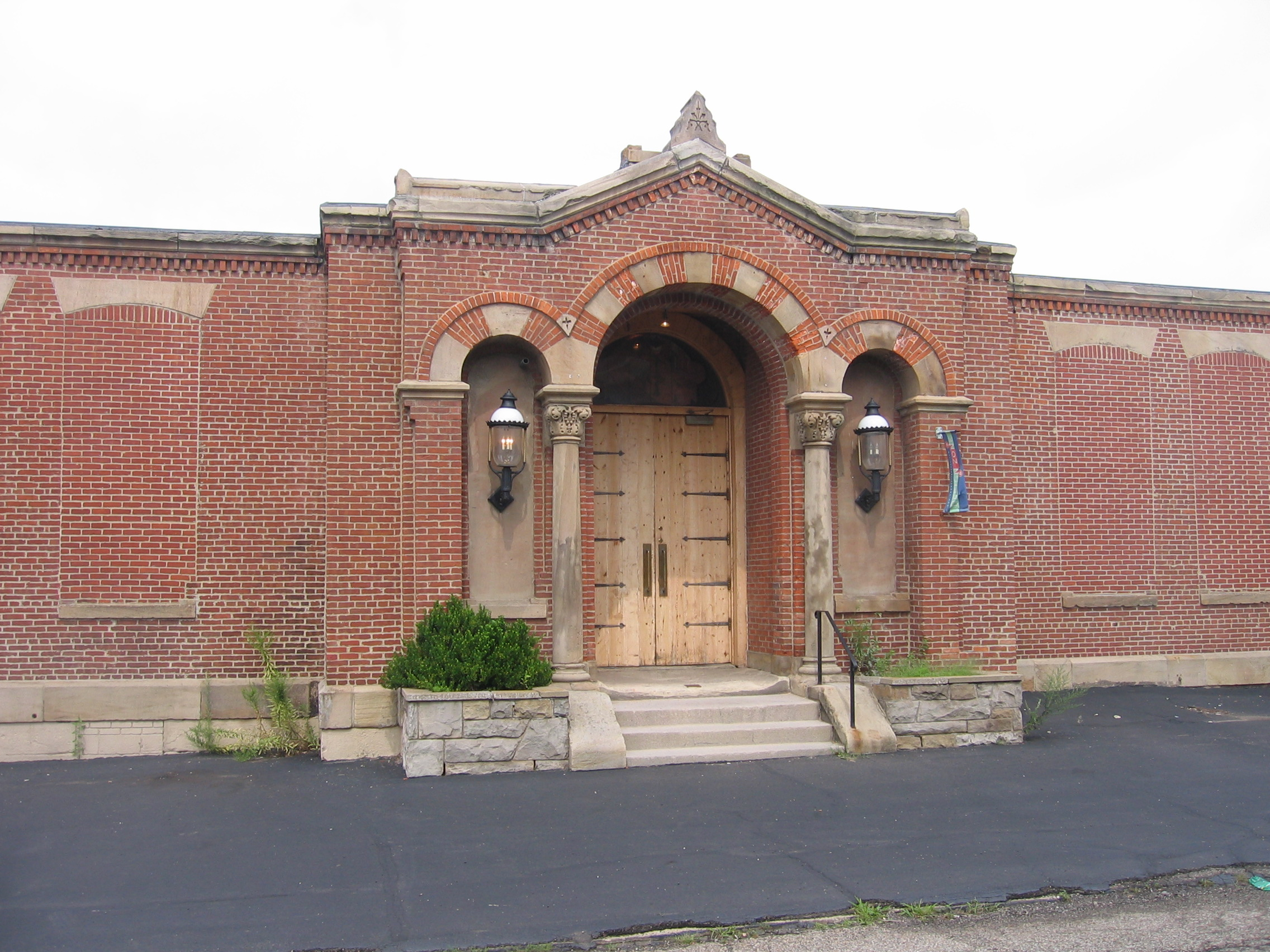 A view of the entrance to the Lawrence Public School building, now adapted for industrial use, in the Lawrenceville neighborhood of Pittsburgh, Pennsylvania.